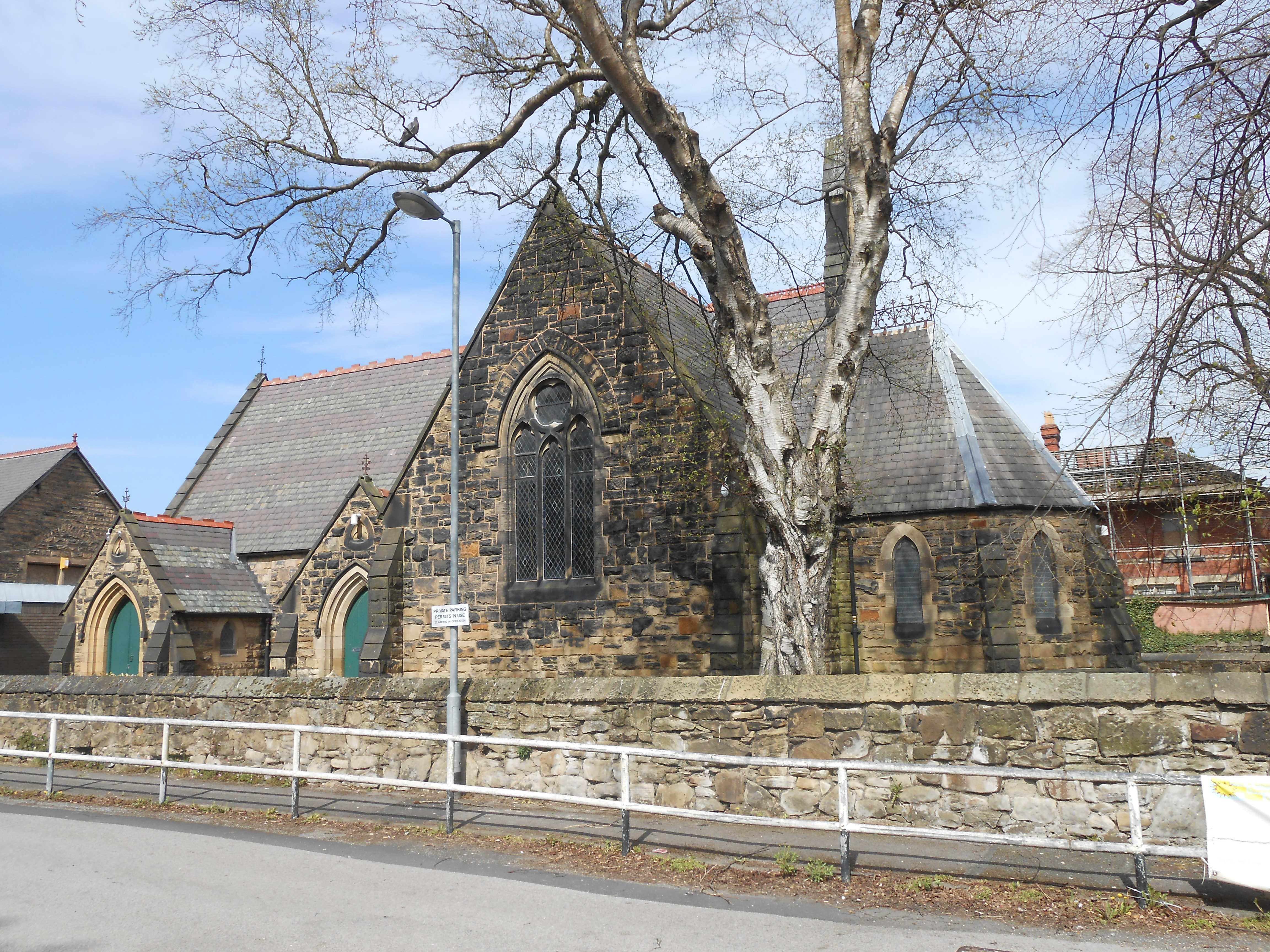 St James' church, Rhosddu, Wrexham, Wales.